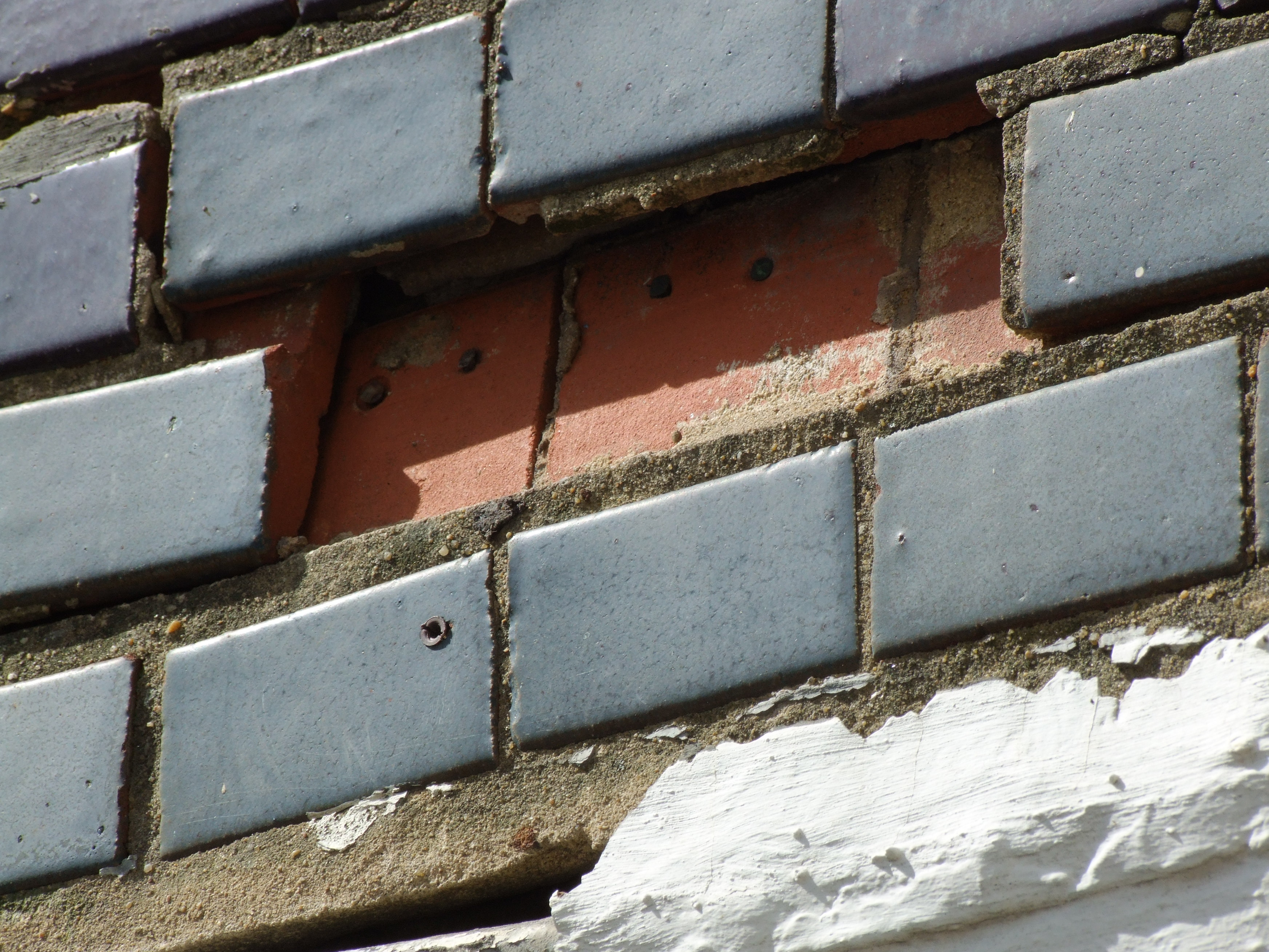 Two missing Mathematical Tiles from the building in Pool Valley, Brighton which reveal how the tiles were attached to the woodwork of this late 18th century building.